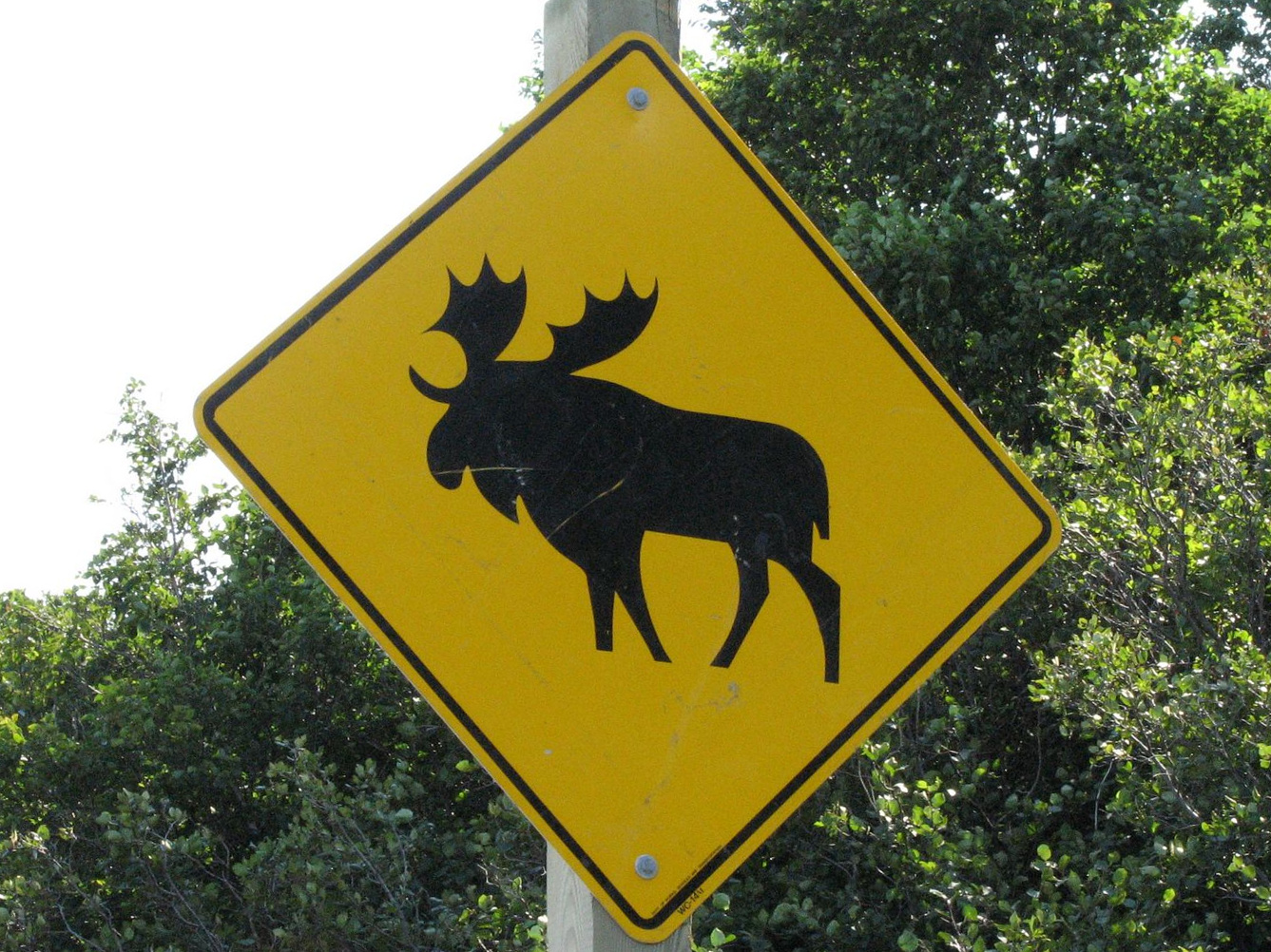 Moose crossing sign in Riding Mountain National Park